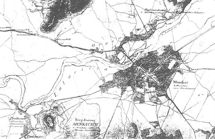 Map of Mukachevo, 1831.